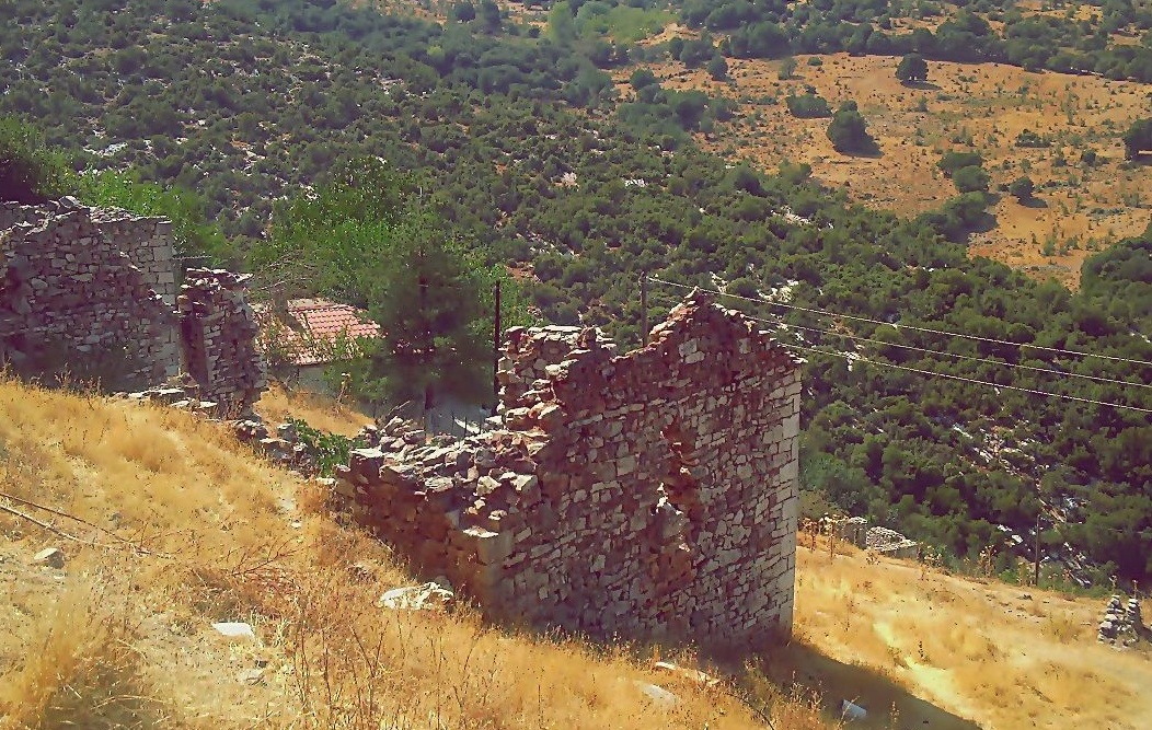 Ruins at Agia Paraskevi (Topolova) village, Achaia, Greece.